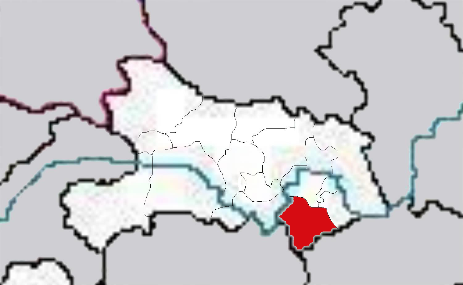 Maps of Hubei Province of China